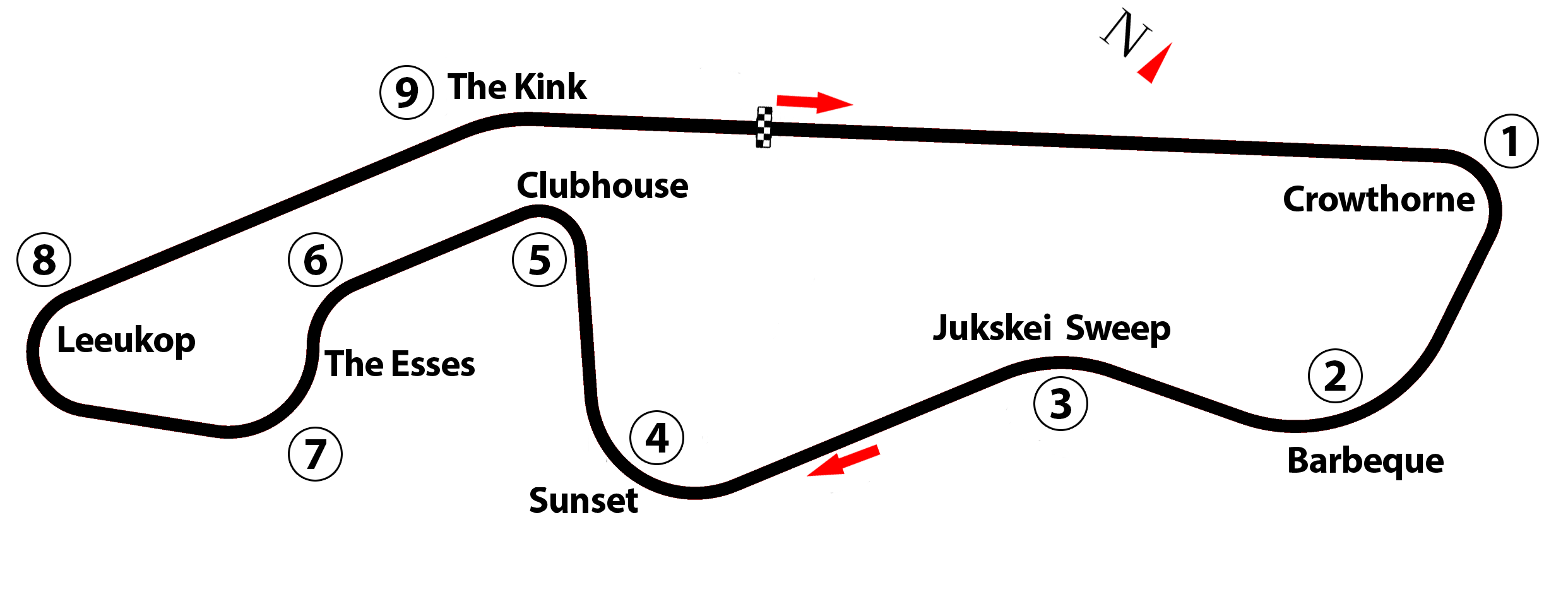 This is the original Kyalami grand prix circuit layout used from 1961 to 1988